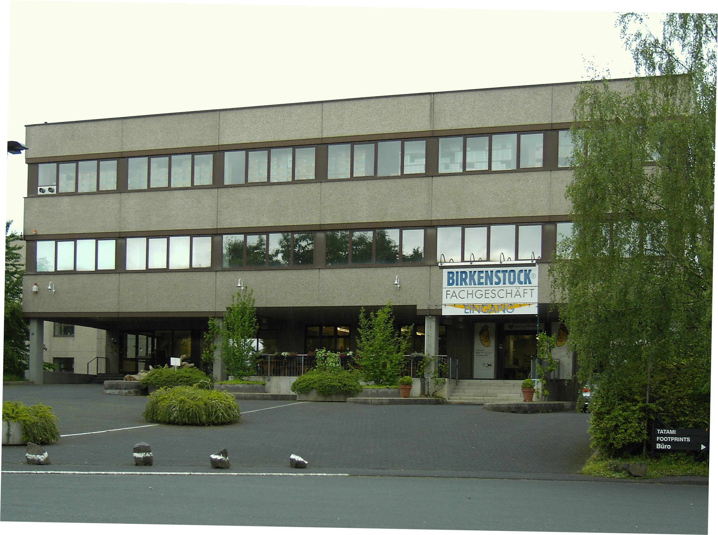 Specialist store (factory outlet) of Birkenstock, a german producer of shoes in Bad Honnef near Bonn.